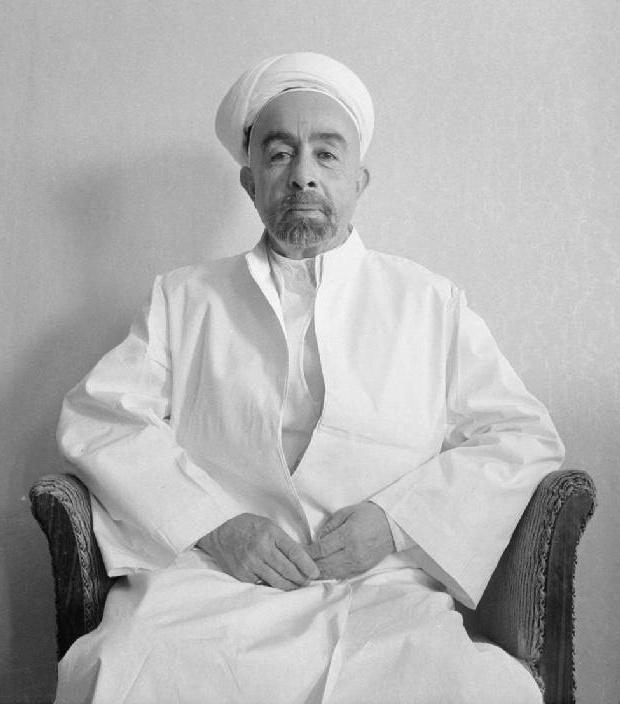 Cecil Beaton Photographs- Political and Military Personalities Political Personalities: Half length portrait of Emir Abdullah of Trans-Jordan in Amman.